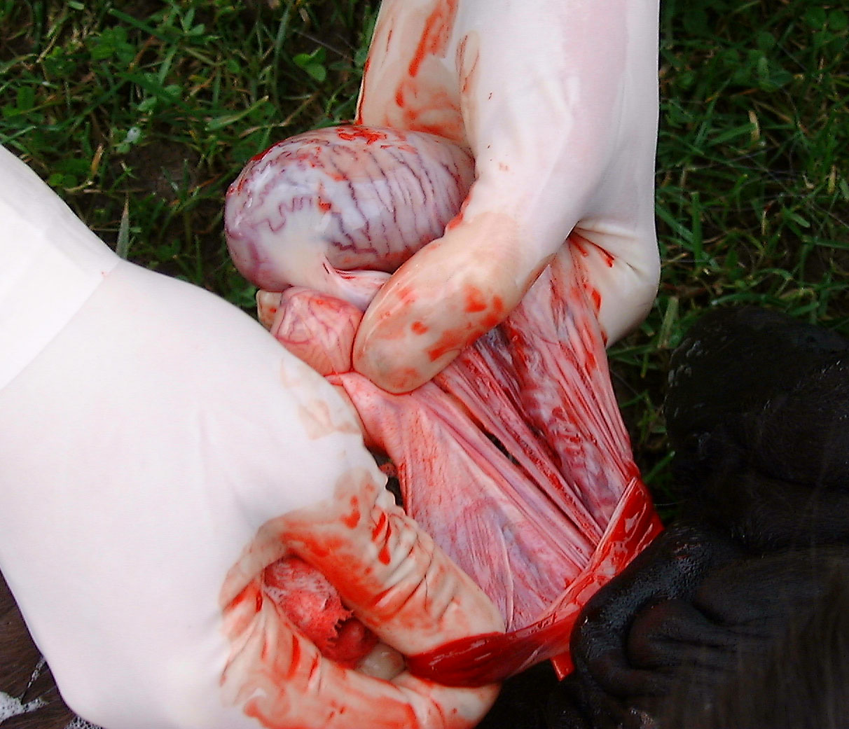 Performing an open castration in a horse lying anaesthetised in lateral recumbency. Taken by Malcolm Morley MRCVS All use to credit